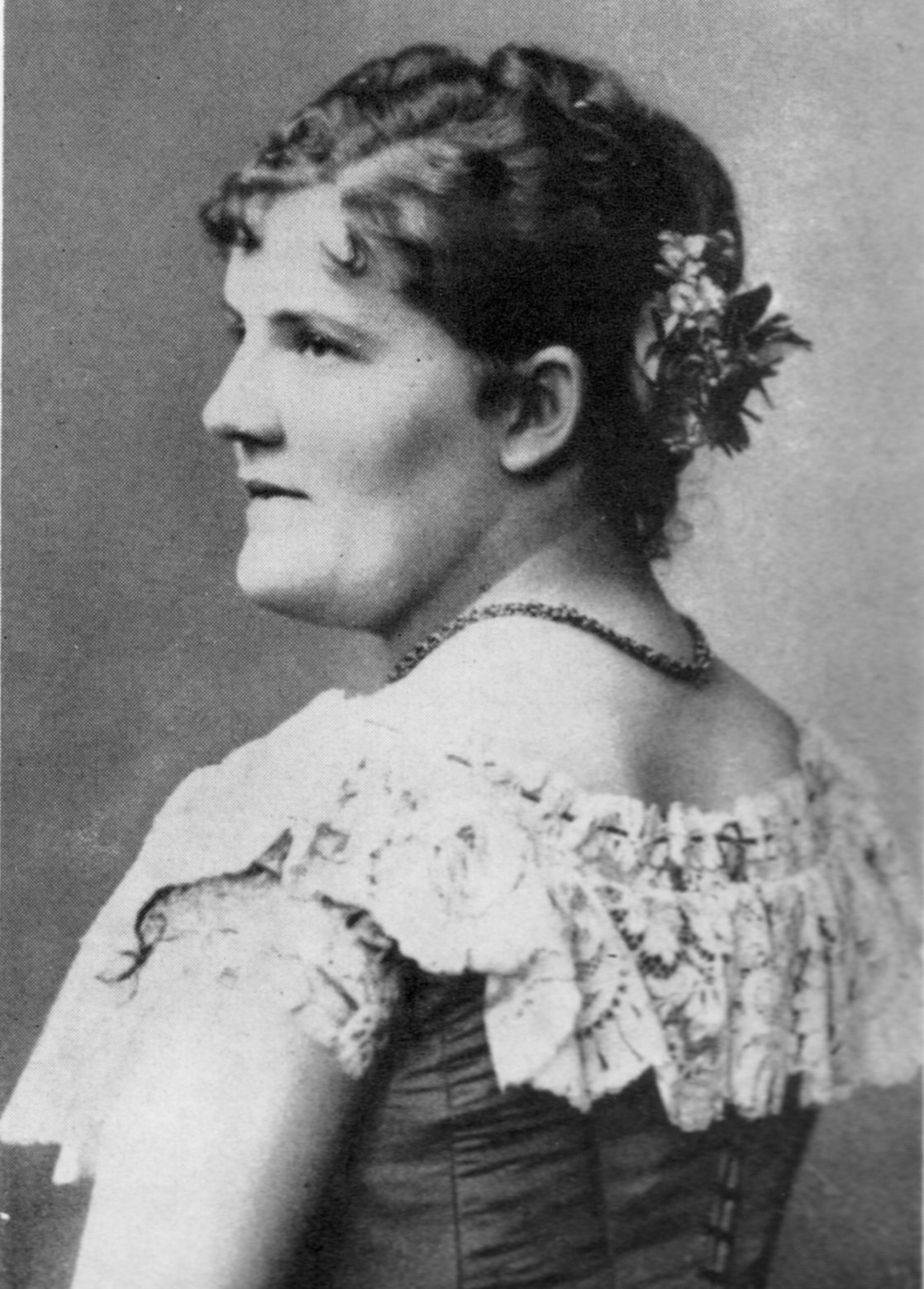 Portrait of the singer